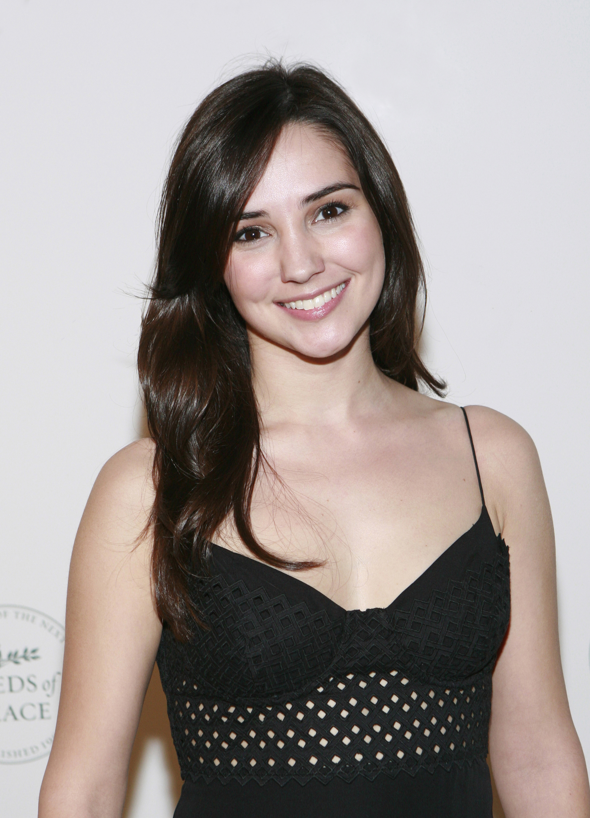 Laura Breckenridge at Seeds of Peace, February 19, 2009